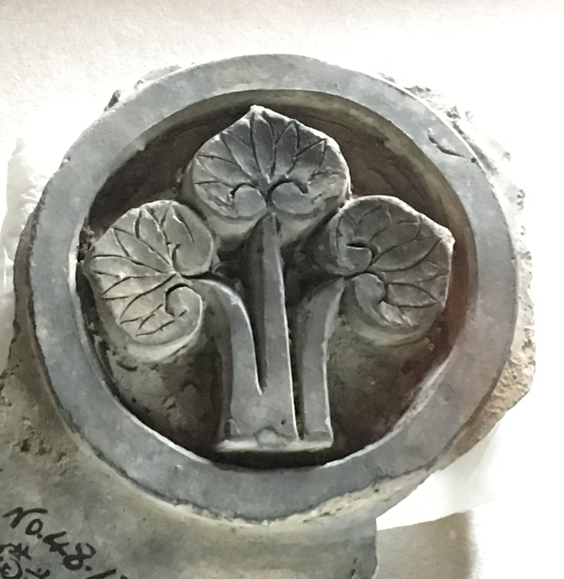 A roof tile in Himeji-joo(姬路城) with the seal of Honda(本多) family on it.